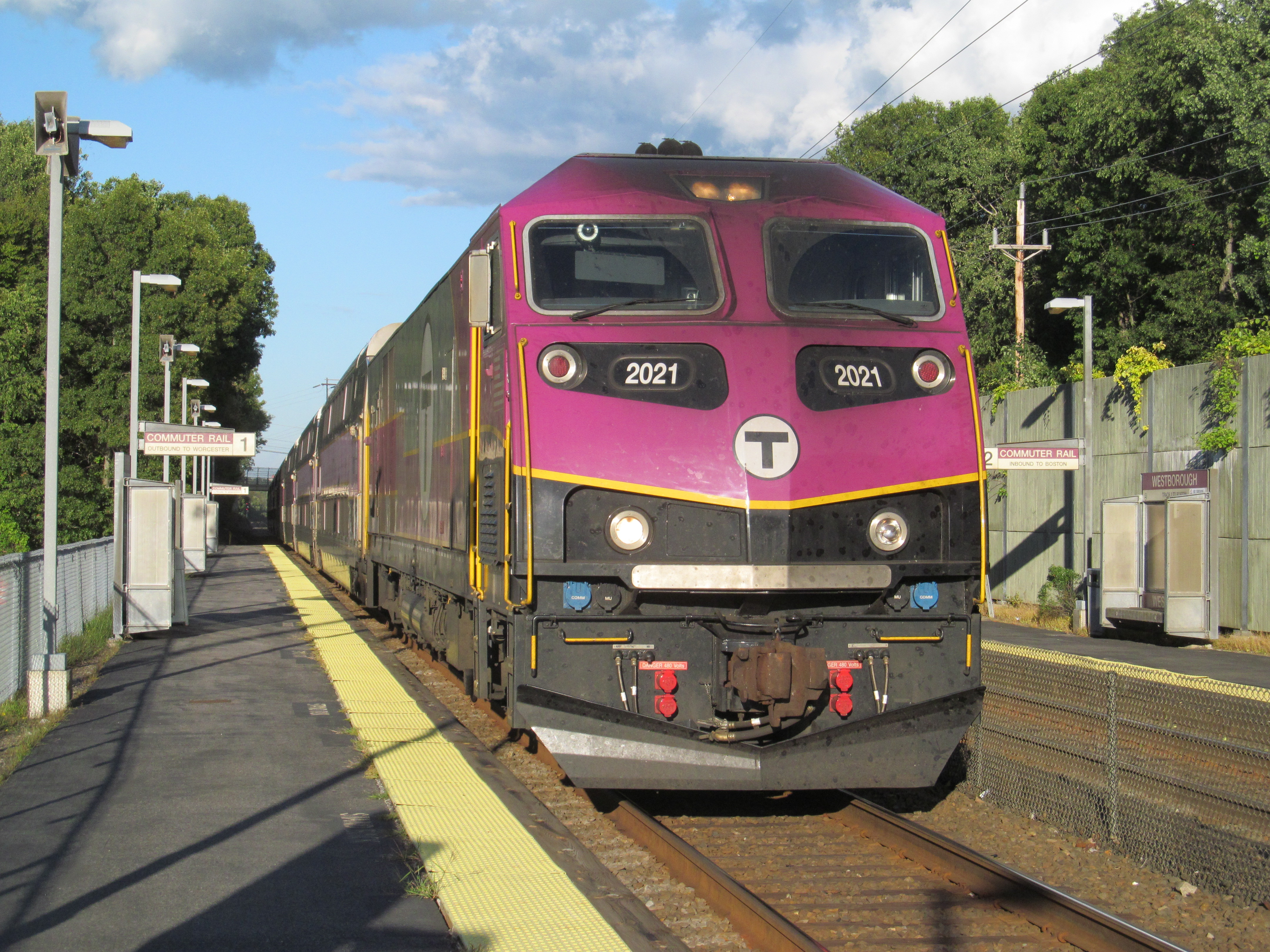 MBTA 2021 leads a westbound rush hour train into Westborough station in September 2016